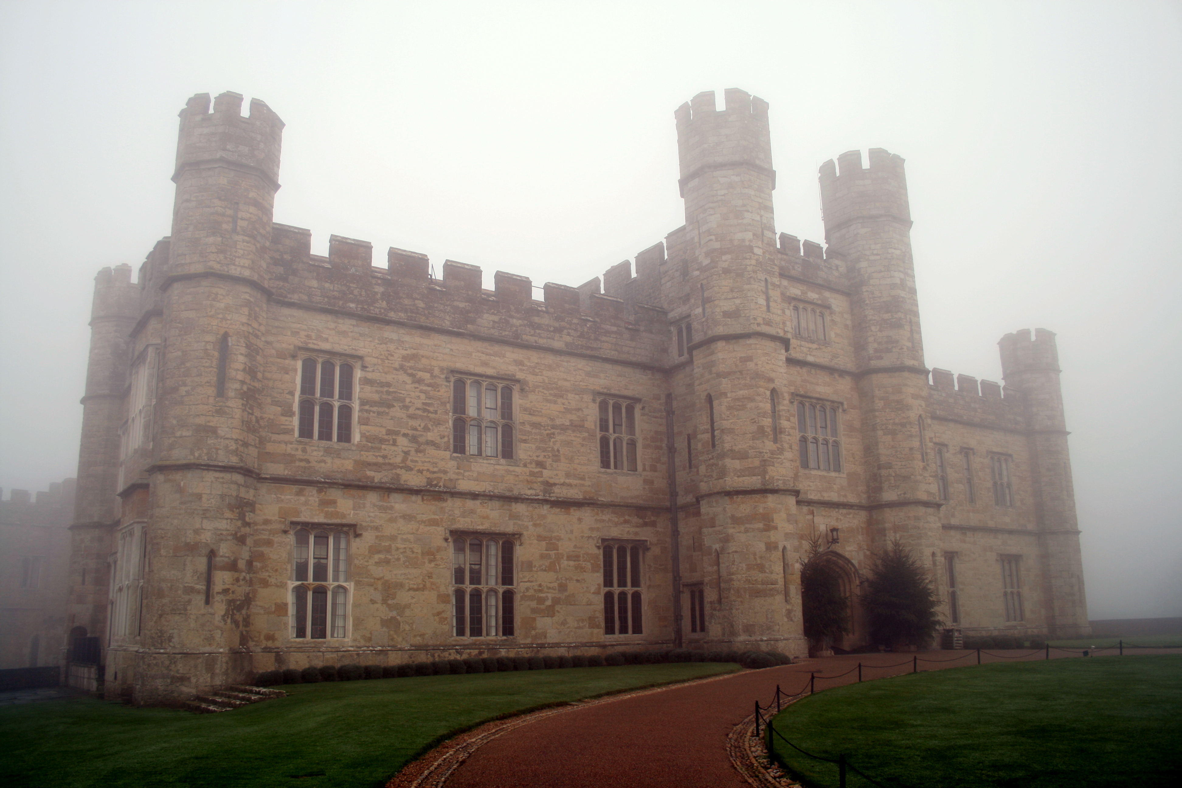 Leeds Castle